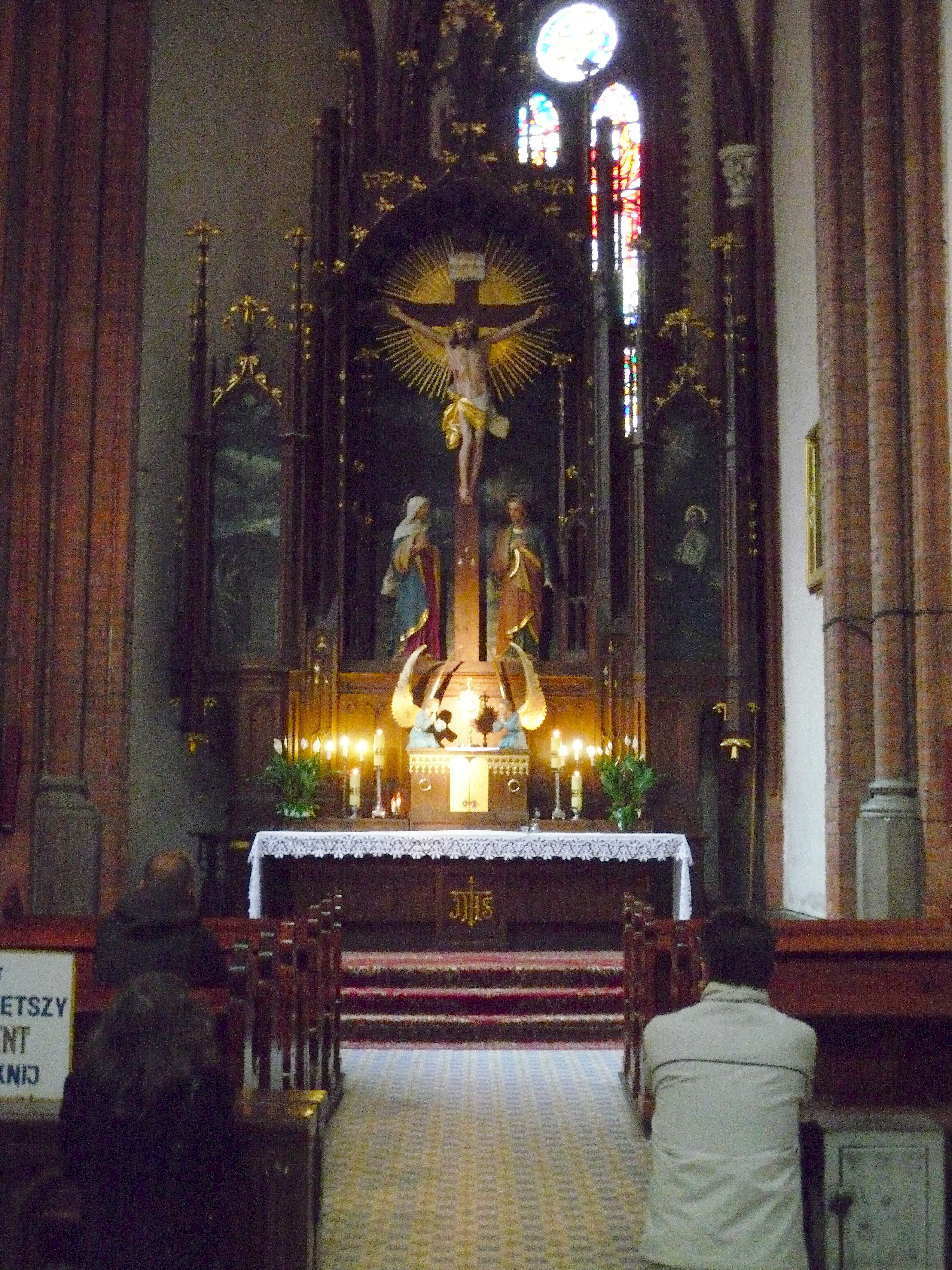 Białystok - the chapel of Crucifixion in the catholic cathedral of the Assumption of the Blessed Virgin Mary